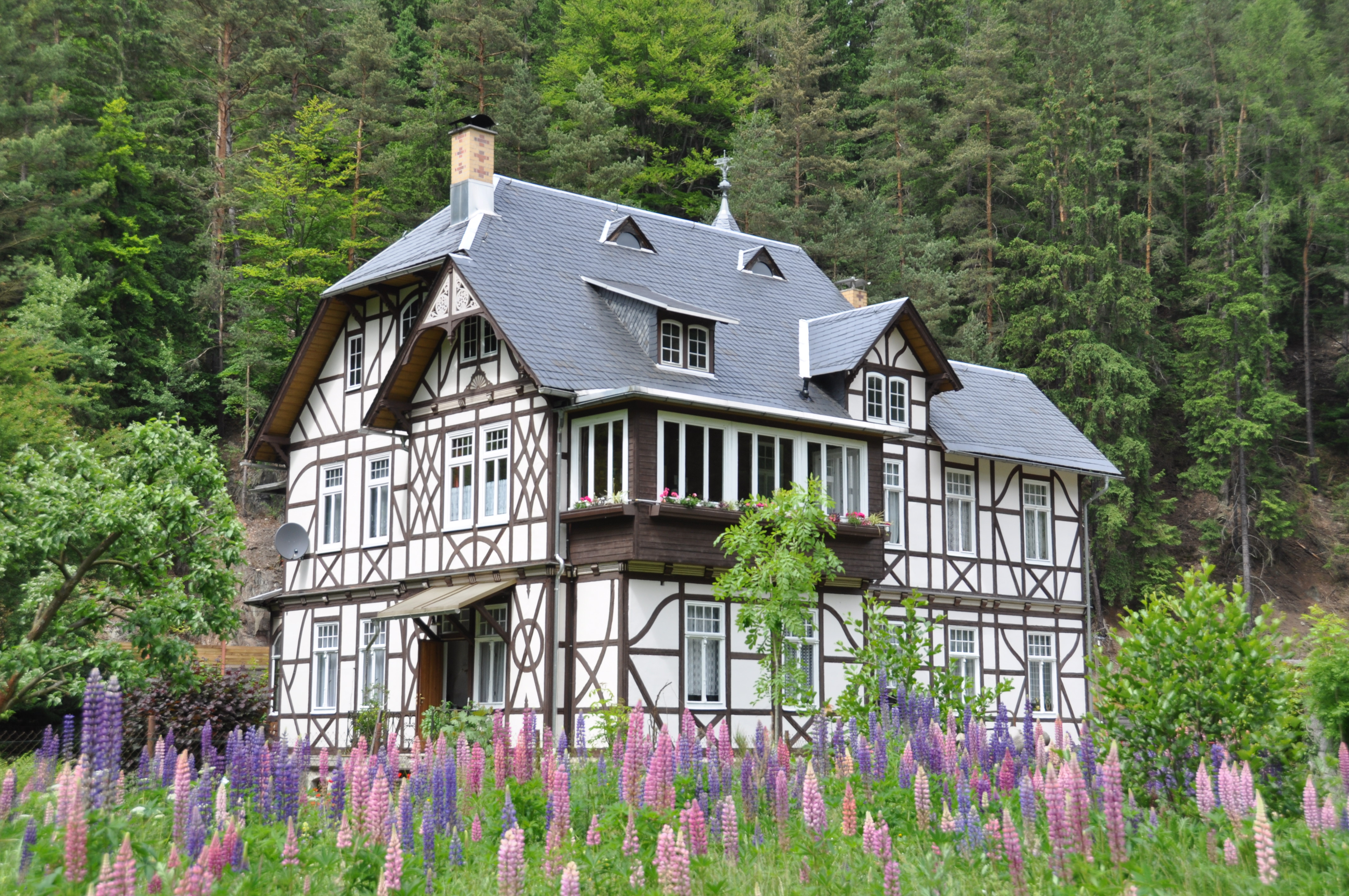 House of the former owner of Zirkelmühle, a lumber mill in Zirkel built in 1903